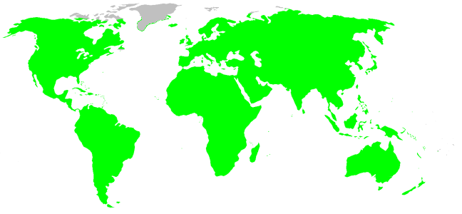 Salticidae habitat distribution, drawn after Platnick: World Spider Catalog 7.0. This is not at all a precise rendering of the distribution! If you have better information, please replace this map, or send me the info, and i will redraw it.